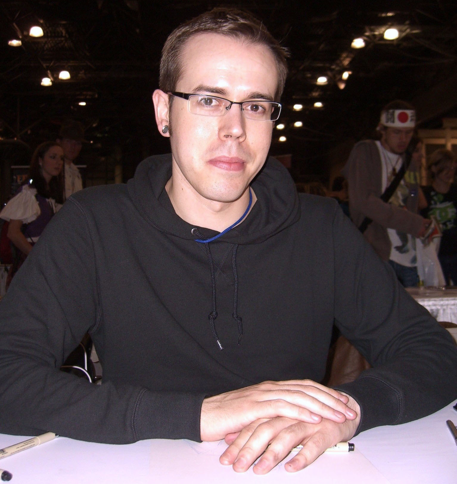 Comic book creator Jamie McKelvie, at the New York Comic Convention in Manhattan, October 10, 2010. Photo by Luigi Novi. This photo may be used, modified and published for any purpose, only if a easily visible credit to the photographer is placed near the photo in each instance in which it is used. (See licensing information below.) Publication of this photo without this proper attribution constitute copyright infringement. For more information on my photos, you can contact me here.